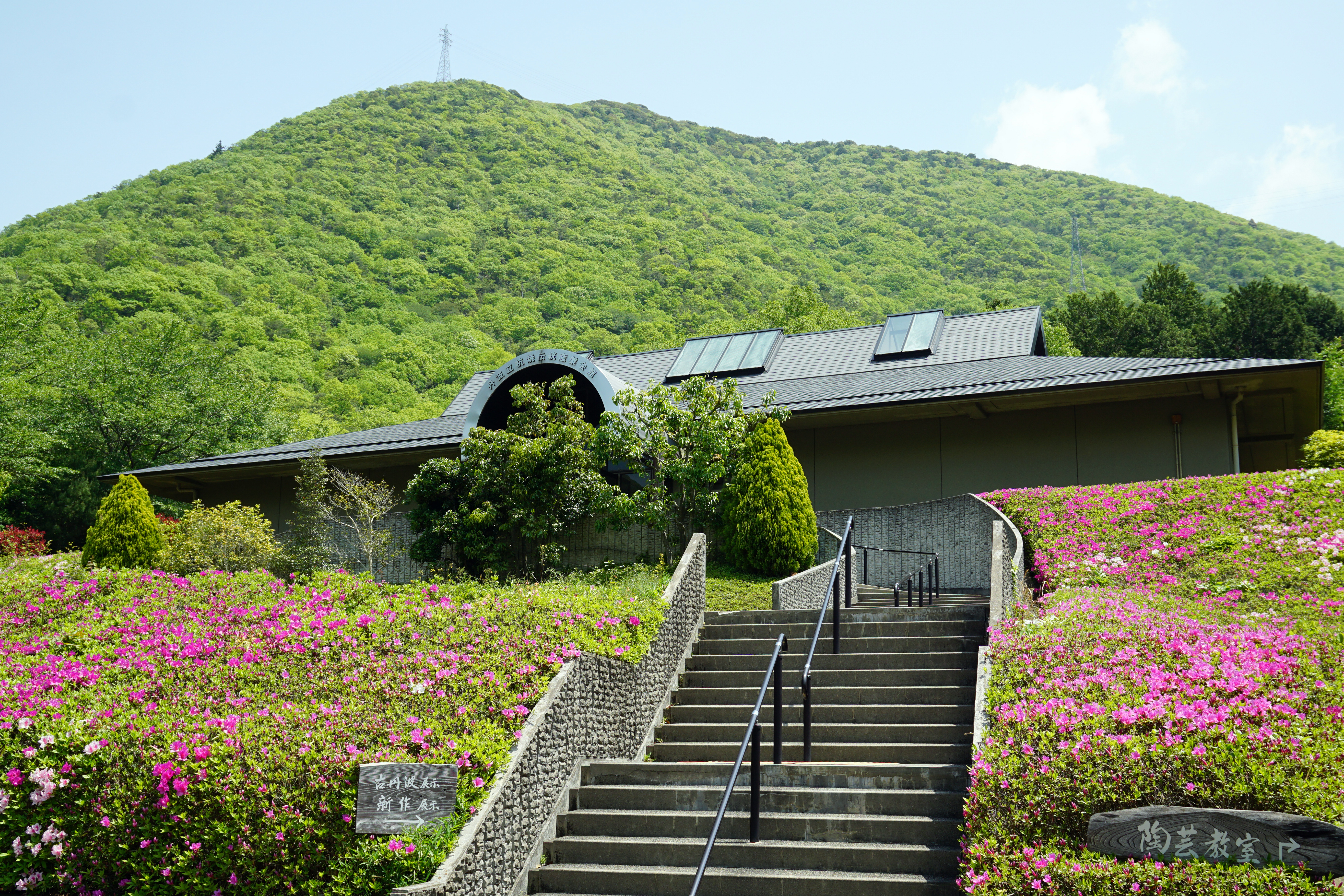 Tamba Traditional Art Craft Park Sue no Sato in Sasayama, Hyogo prefecture, Japan.